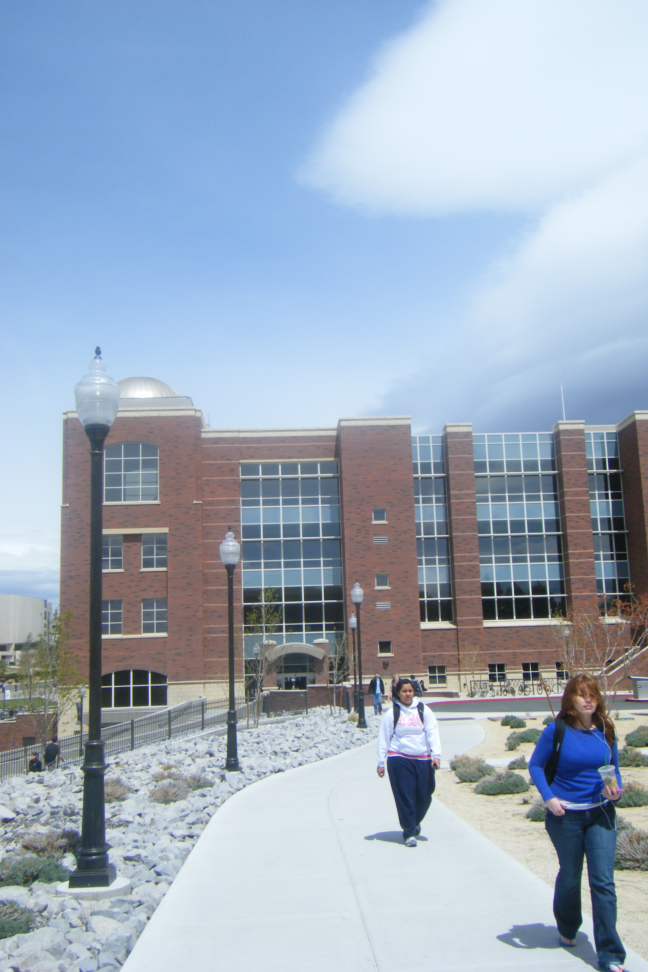 University of Nevada, Reno